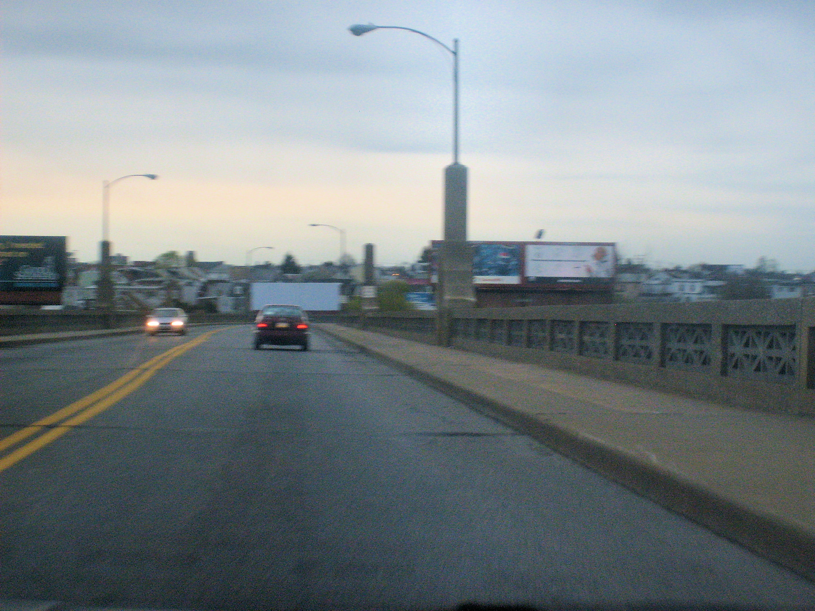 The Tilghman Street Viaduct looking west, taken by the author from a motor vehicle.